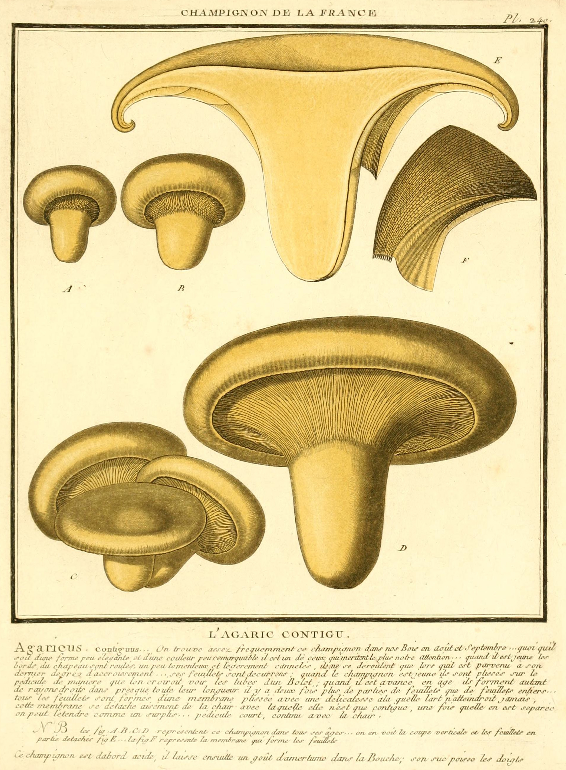 Original in Bulliard, JBF. (1785). Herbier de la France. Paris, France: Chez l'auteur. pp. 192–240. Plate 240. "L'Agaric contigu" (Agaricus contiguus), currently known as Paxillus involutus.